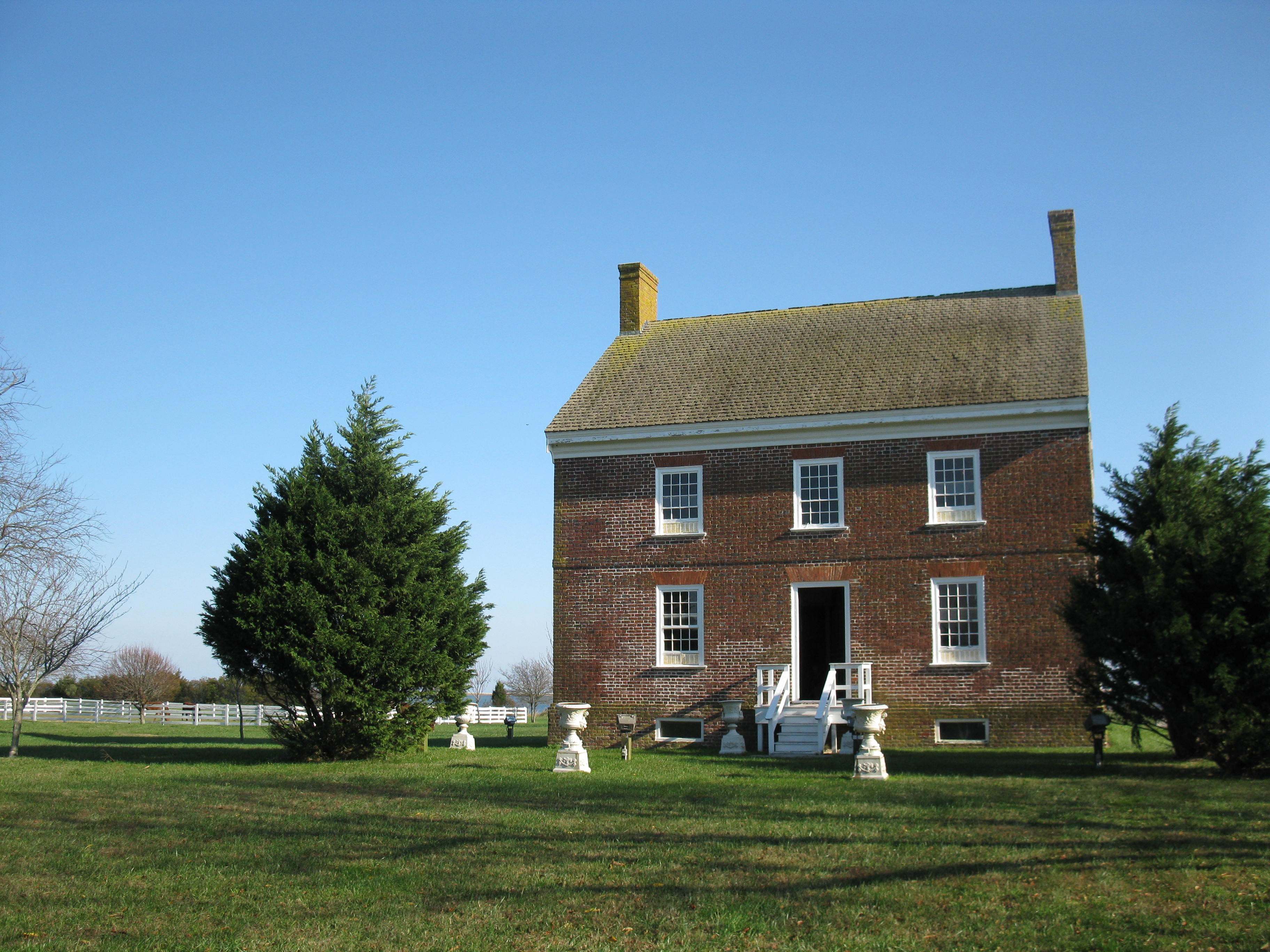 An angled view of the front of Henry's Grove. The building was cosntructed in 1792. All four walls are laid with Flemish bond.